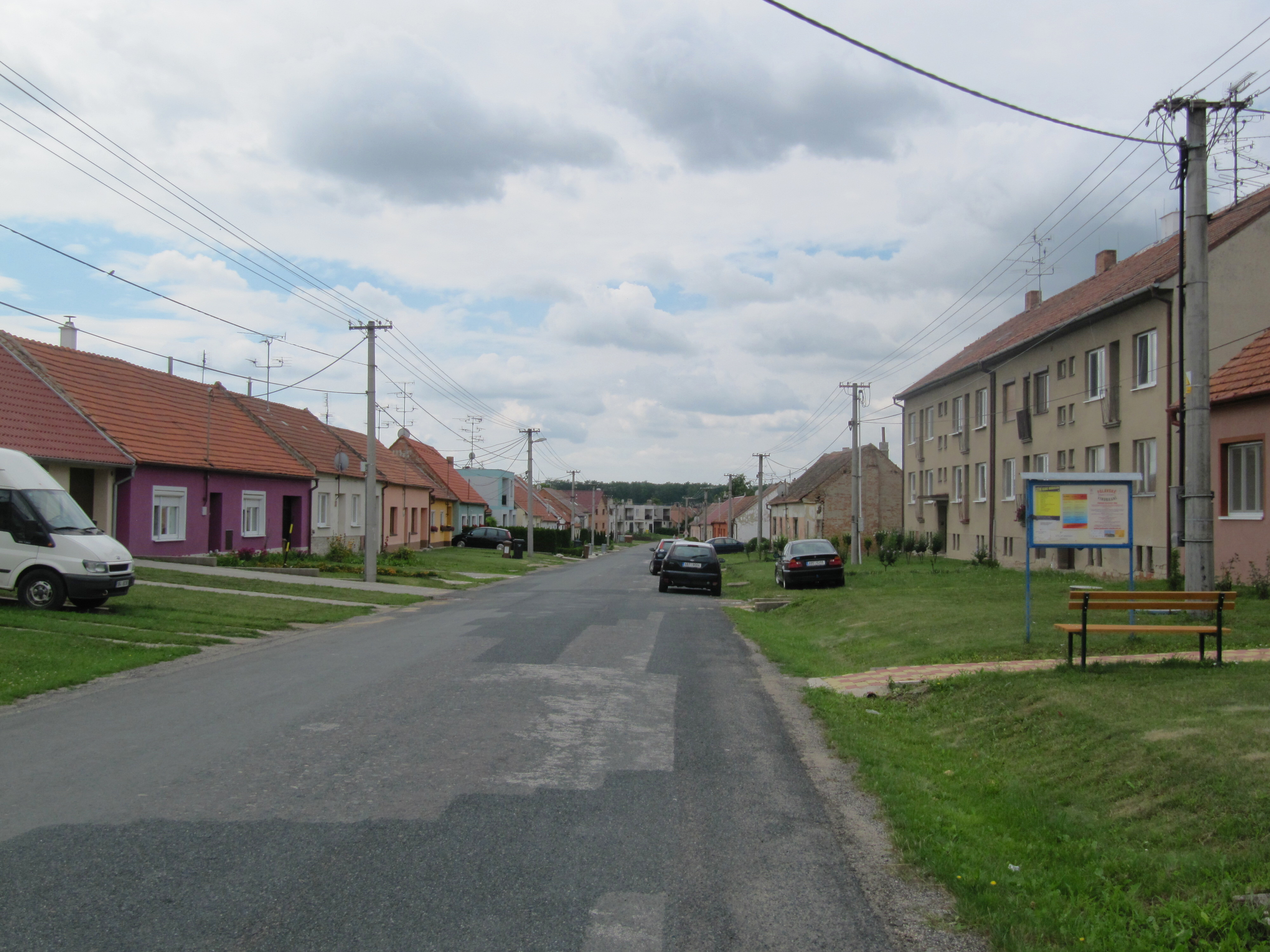 Dobré Pole in Břeclav District, Czech Republic. Mainstreet.